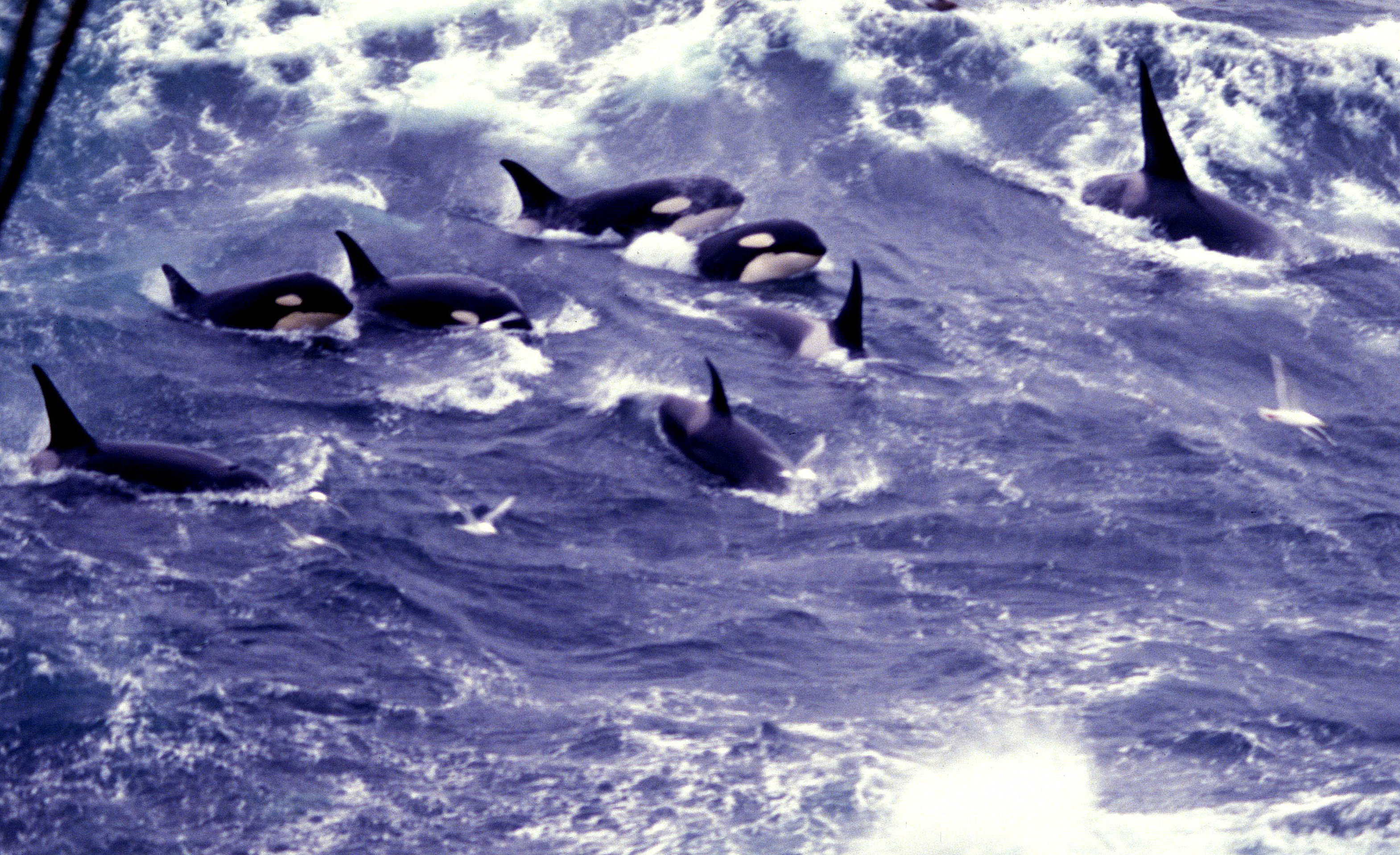 A pod of killer whales (Orcinus orca) in the North Pacific